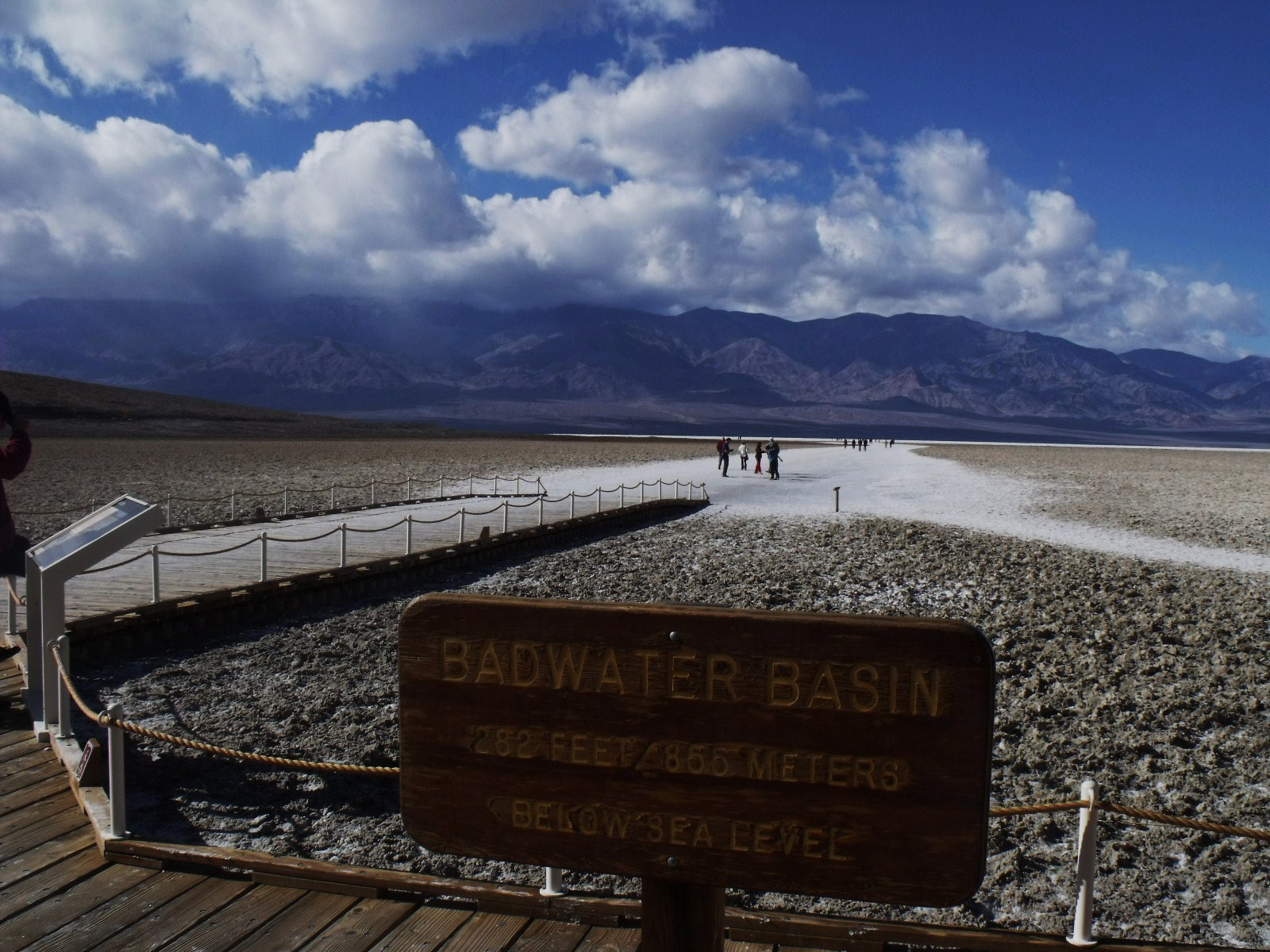 Badwater Basin with the Panamint Range in the distance, Death Valley, California.